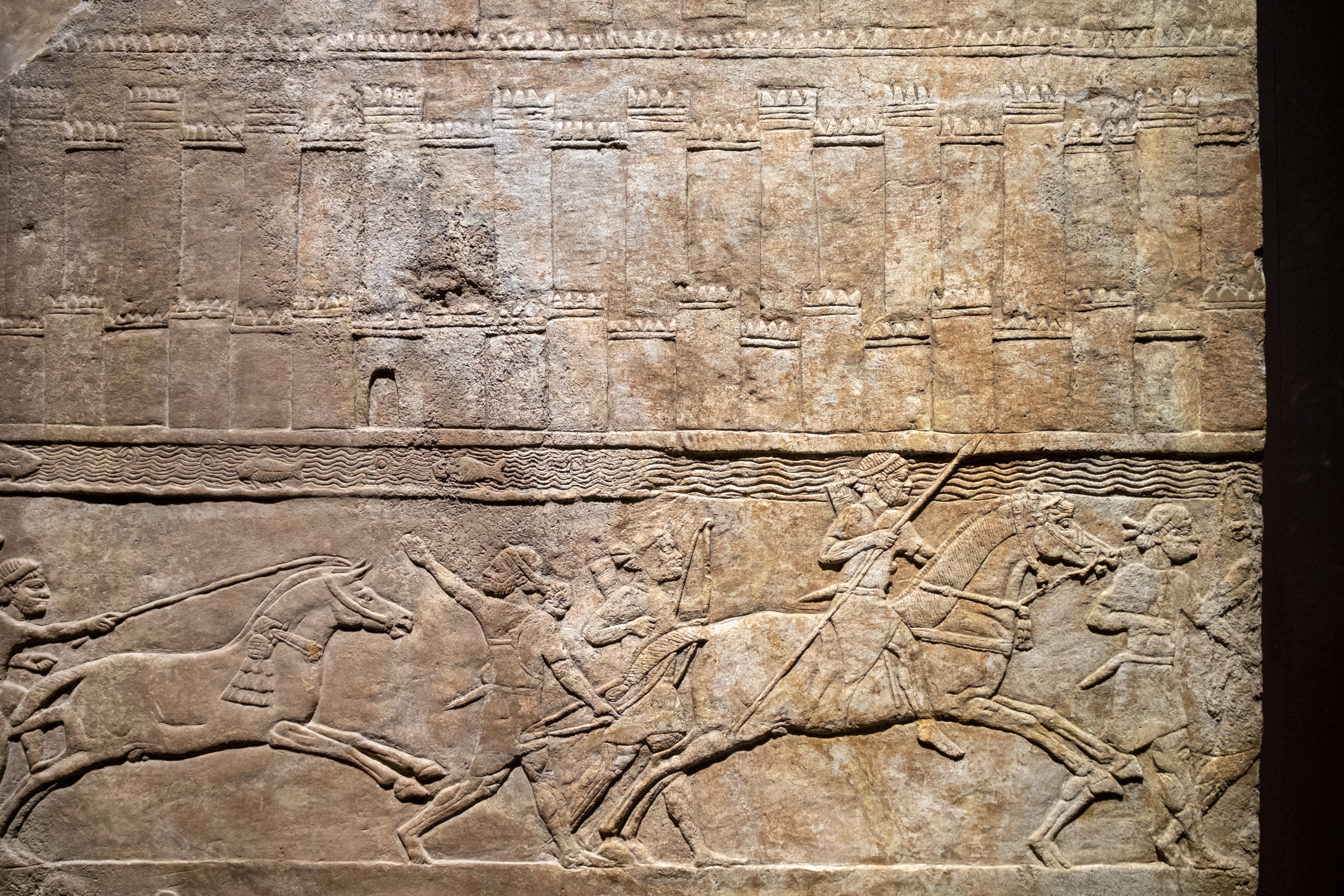 2018 Ashurbanipal - Nineveh